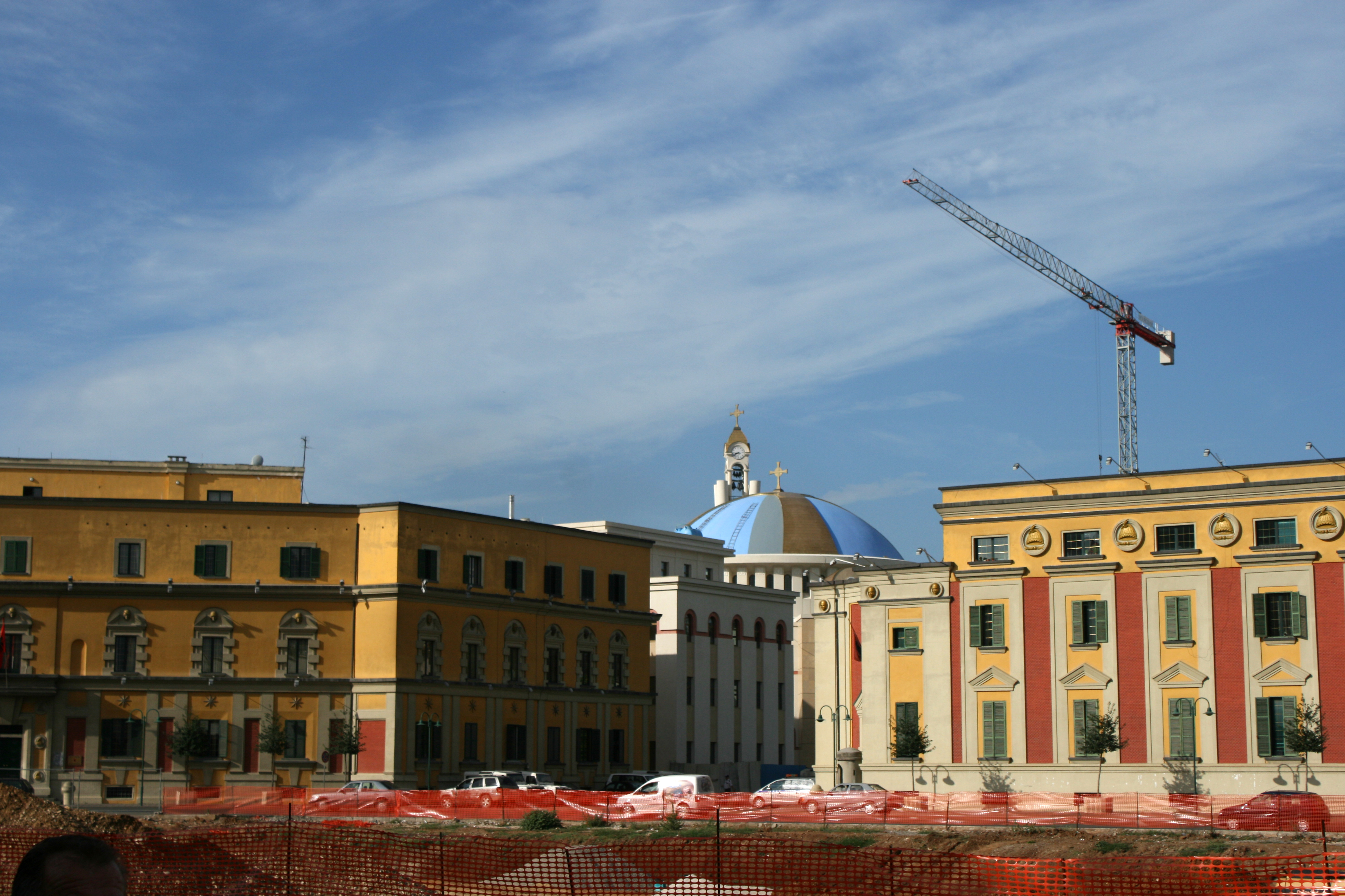 across the skanderbeg square tirana